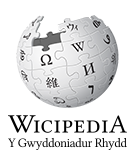 Wikipedia logo 2.0